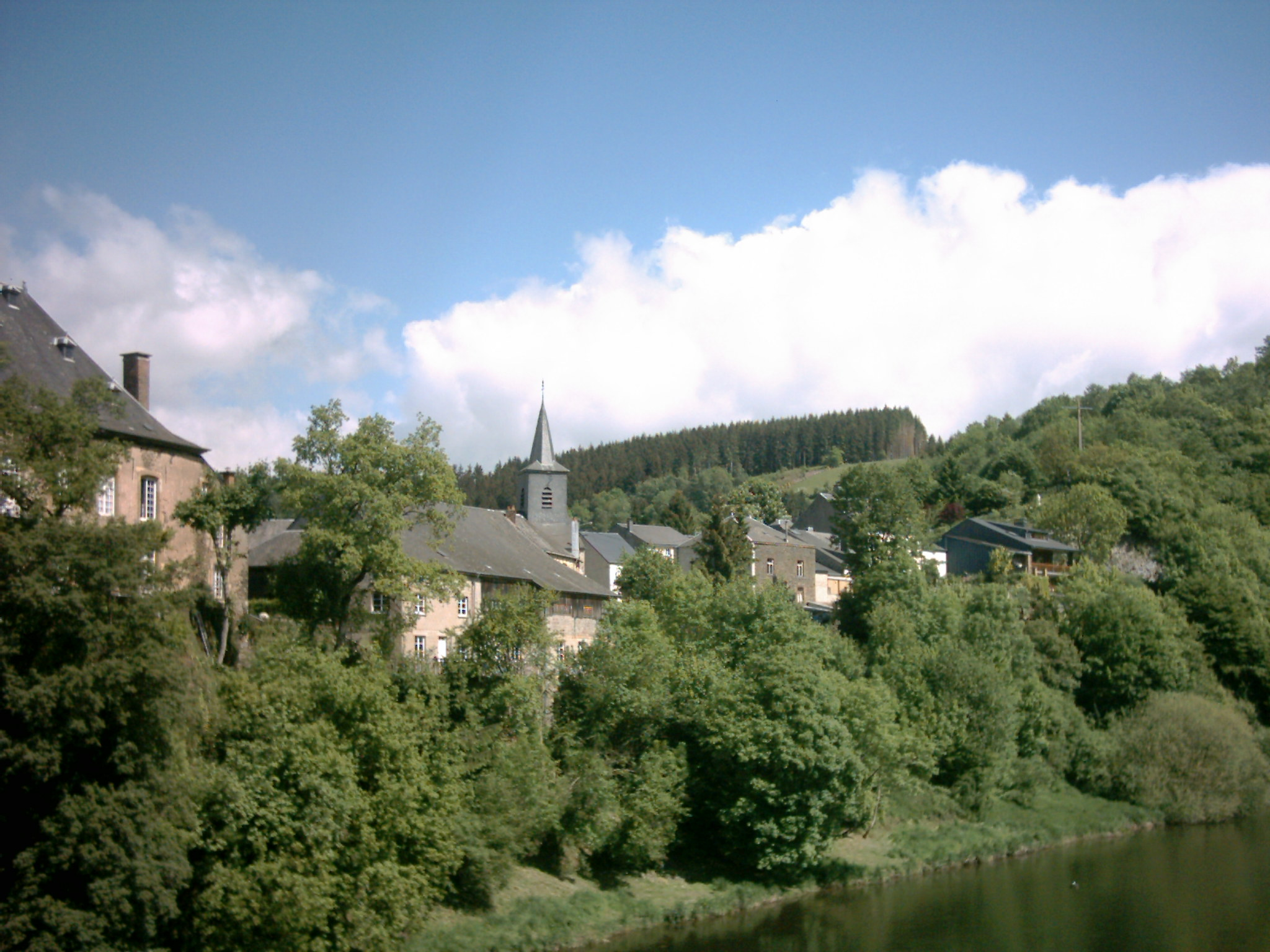 View on Dohan and Semois river. Picture taken by myself in May 2004. All rights released.